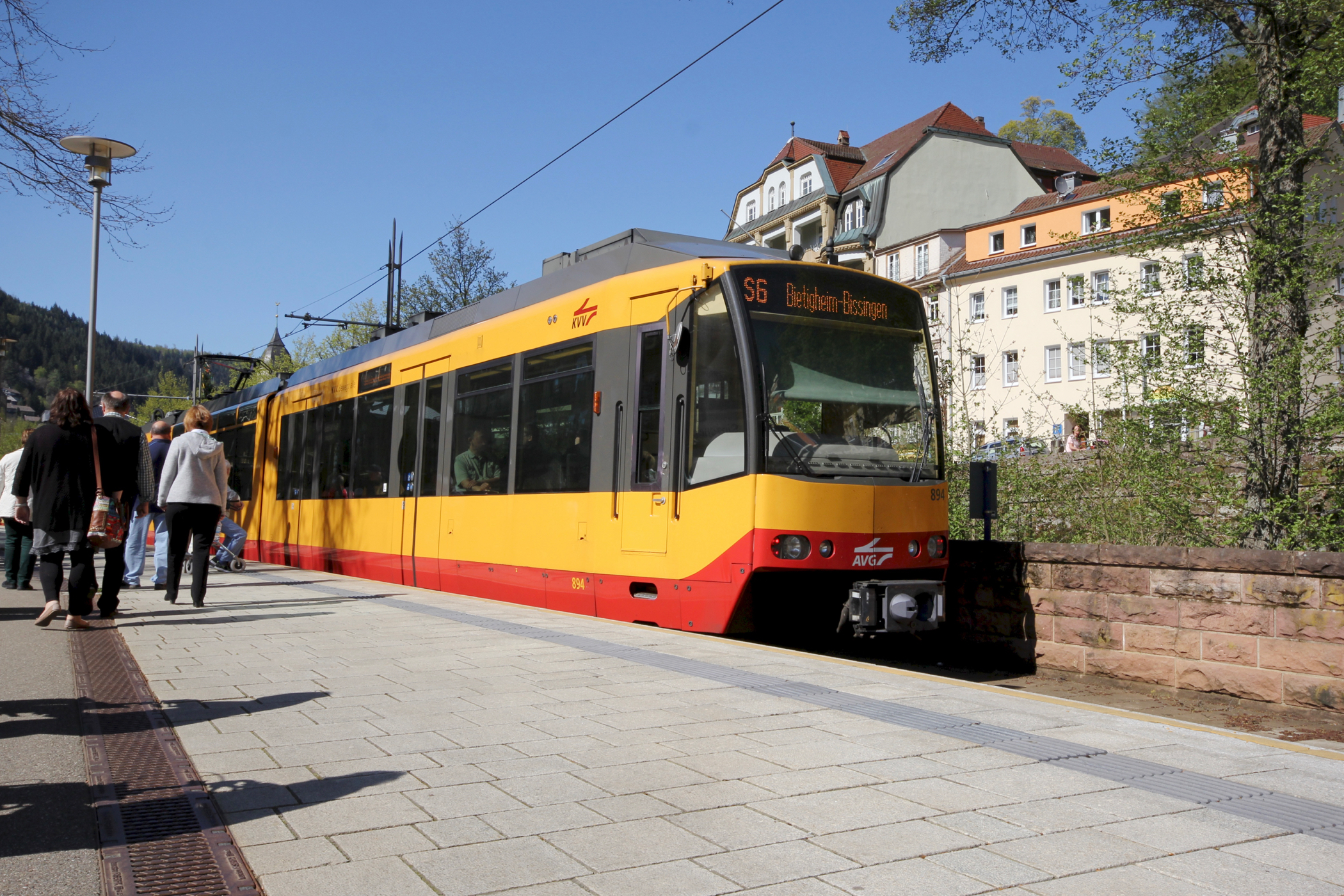 On a national holiday, a tram train of Karlsruhe "Stadtbahn" stands in the station of Bad Wildbad-Kurpark, awaiting the next departure towards Bietigheim-Bissingen in Baden-Wurttemberg, southern Germany.